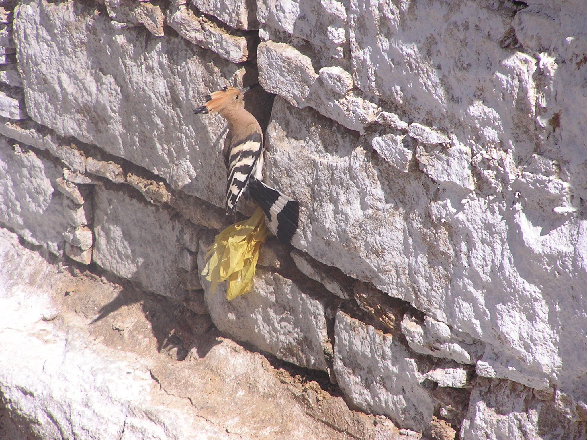 Ganden Monastery 14.